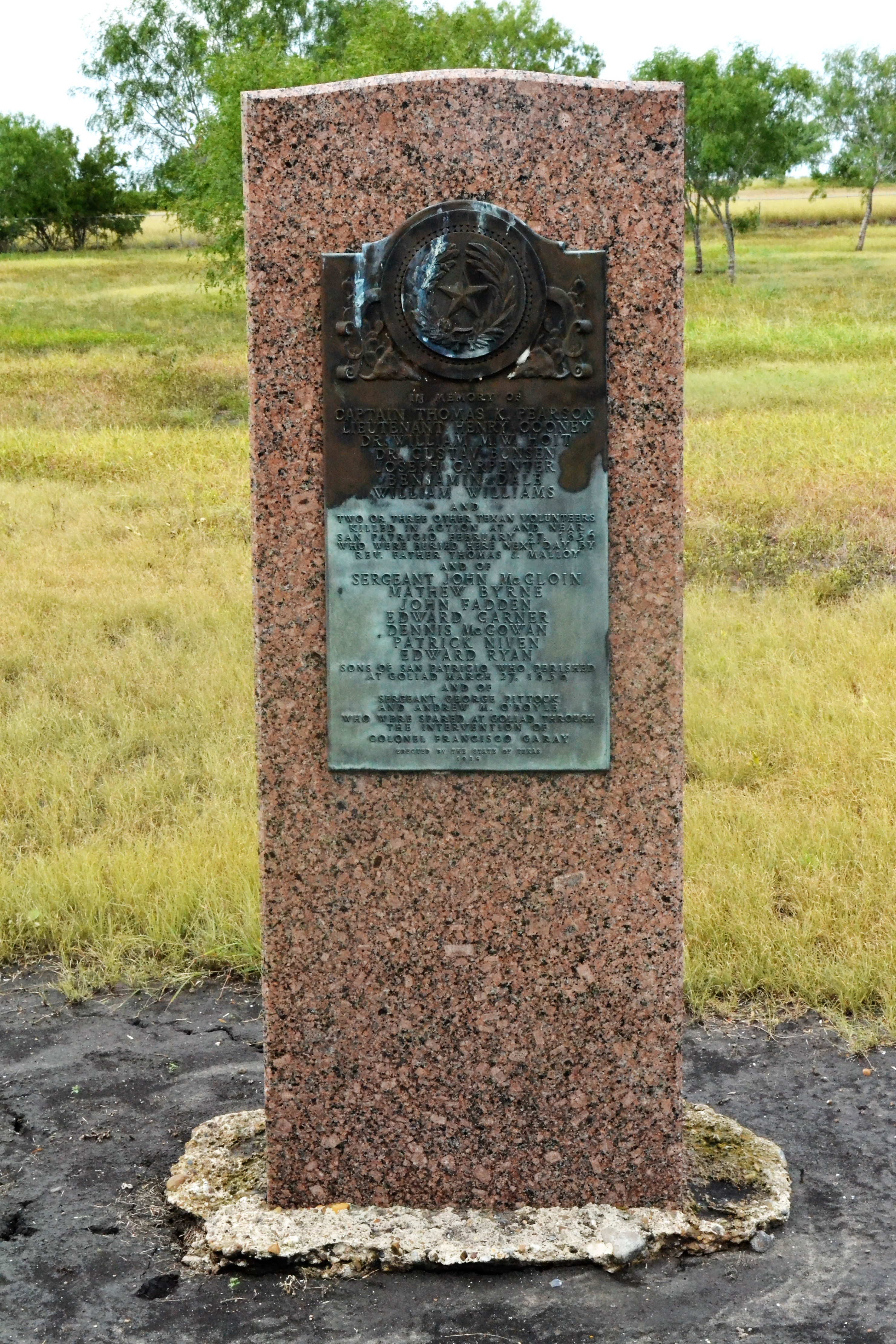 The Sons of San Patricio Monument in the old San Patricio Cemetery outside San Patricio, Texas. Created by sculptor Raoul Josset and architects Page and Southerland for the 1936 Texas Centennial, it was listed on the National Register of Historic Places on April 19, 2018.